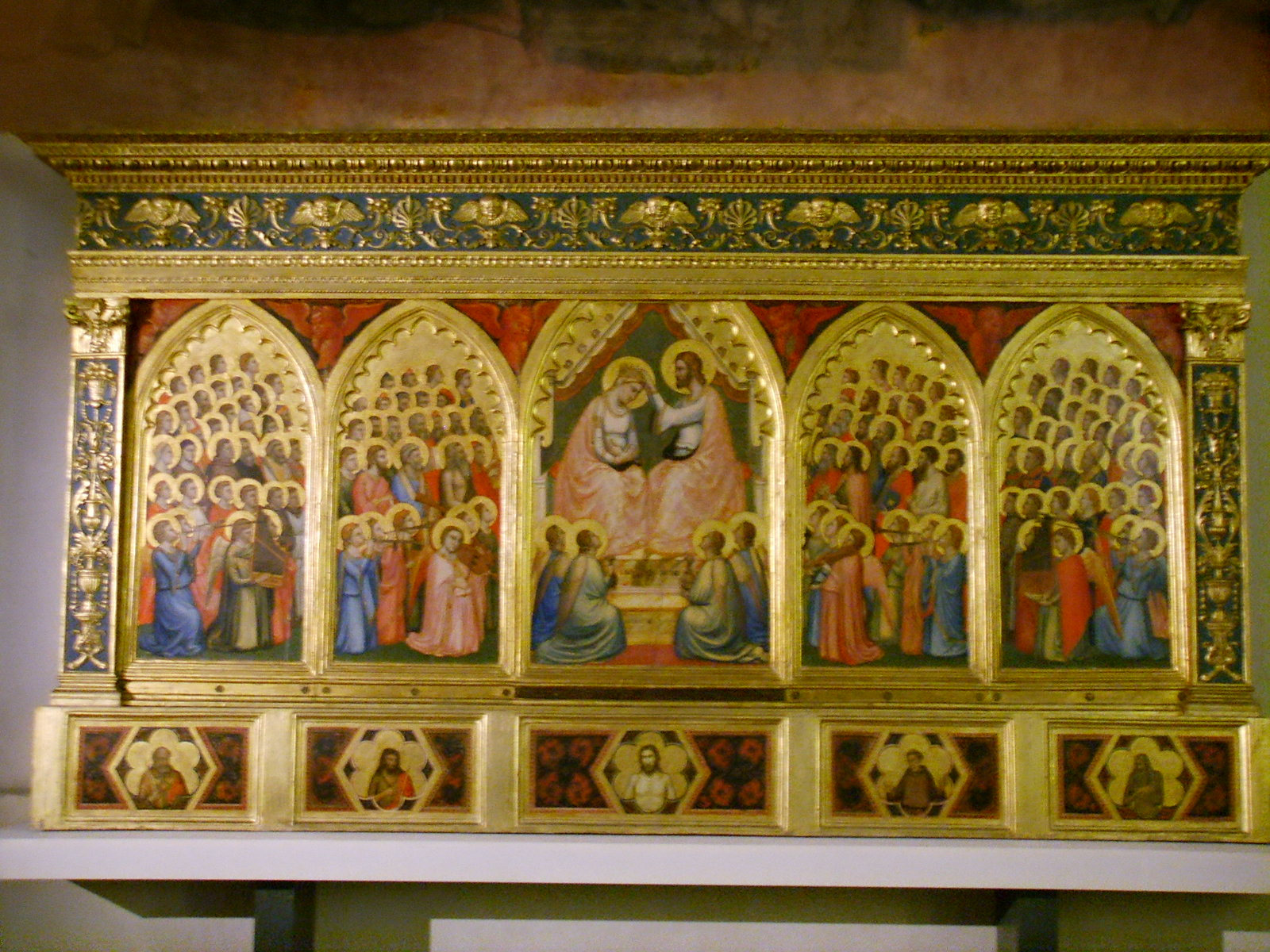 Santa Croce church, Polittico Baroncelli, painting by Giotto and school, inside, in Florence, Italy